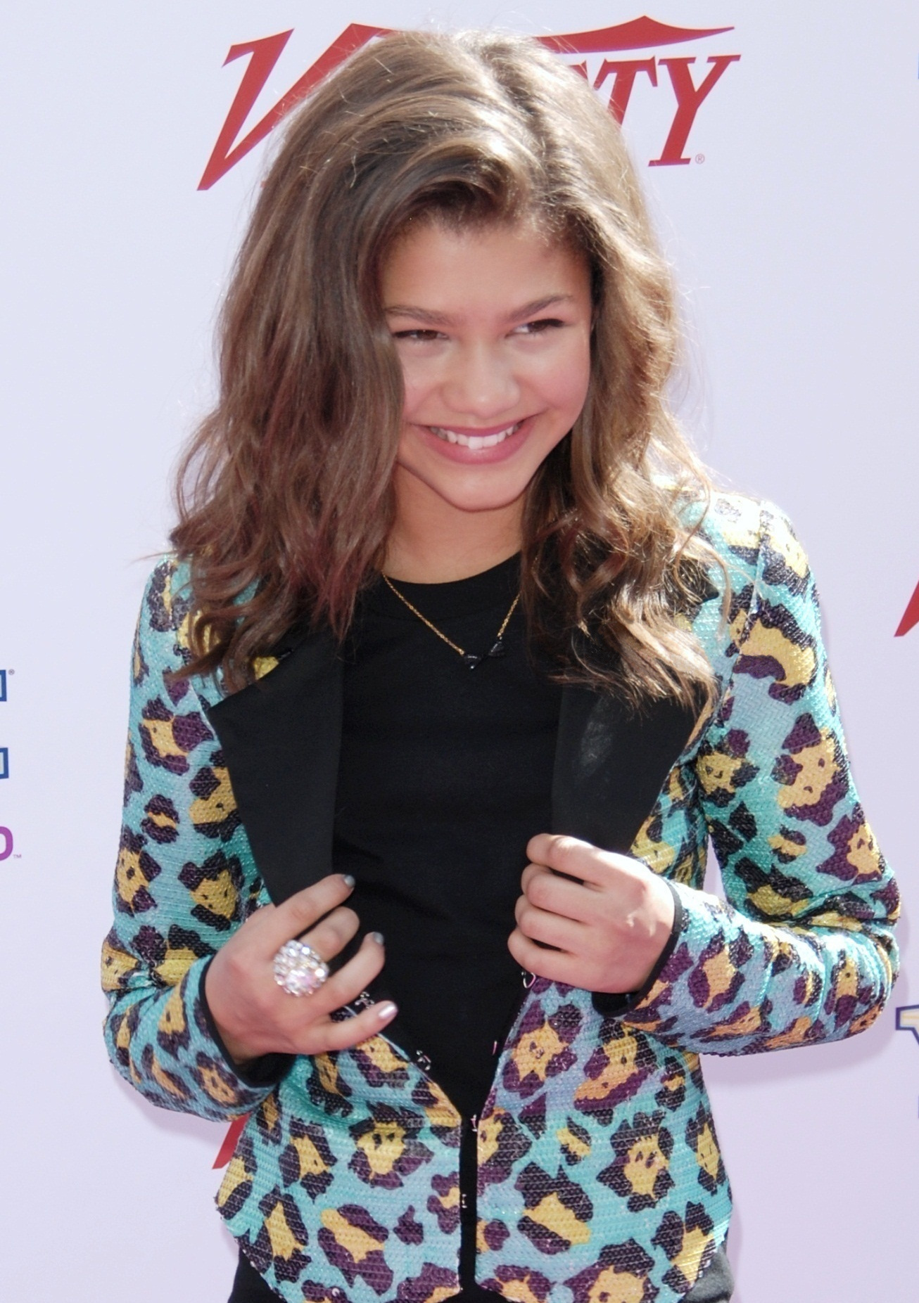 Actress Zendaya Coleman attends the Variety's Power of Youth Event at Paramount Studios in Hollywood, CA, Oct 24, 2010.